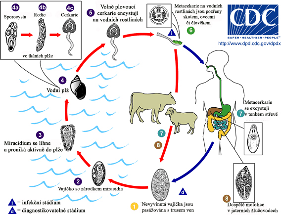 The life cycle of Fasciola hepatica (translated by Flukeman)